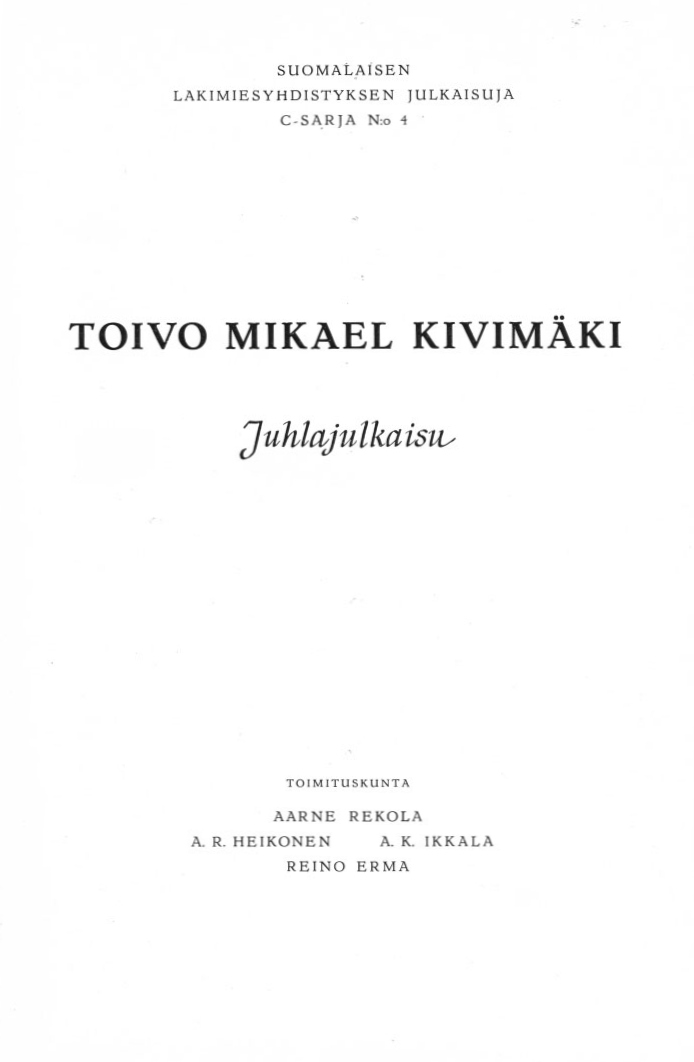 Title page from the Festschrift for T. M. Kivimäki.